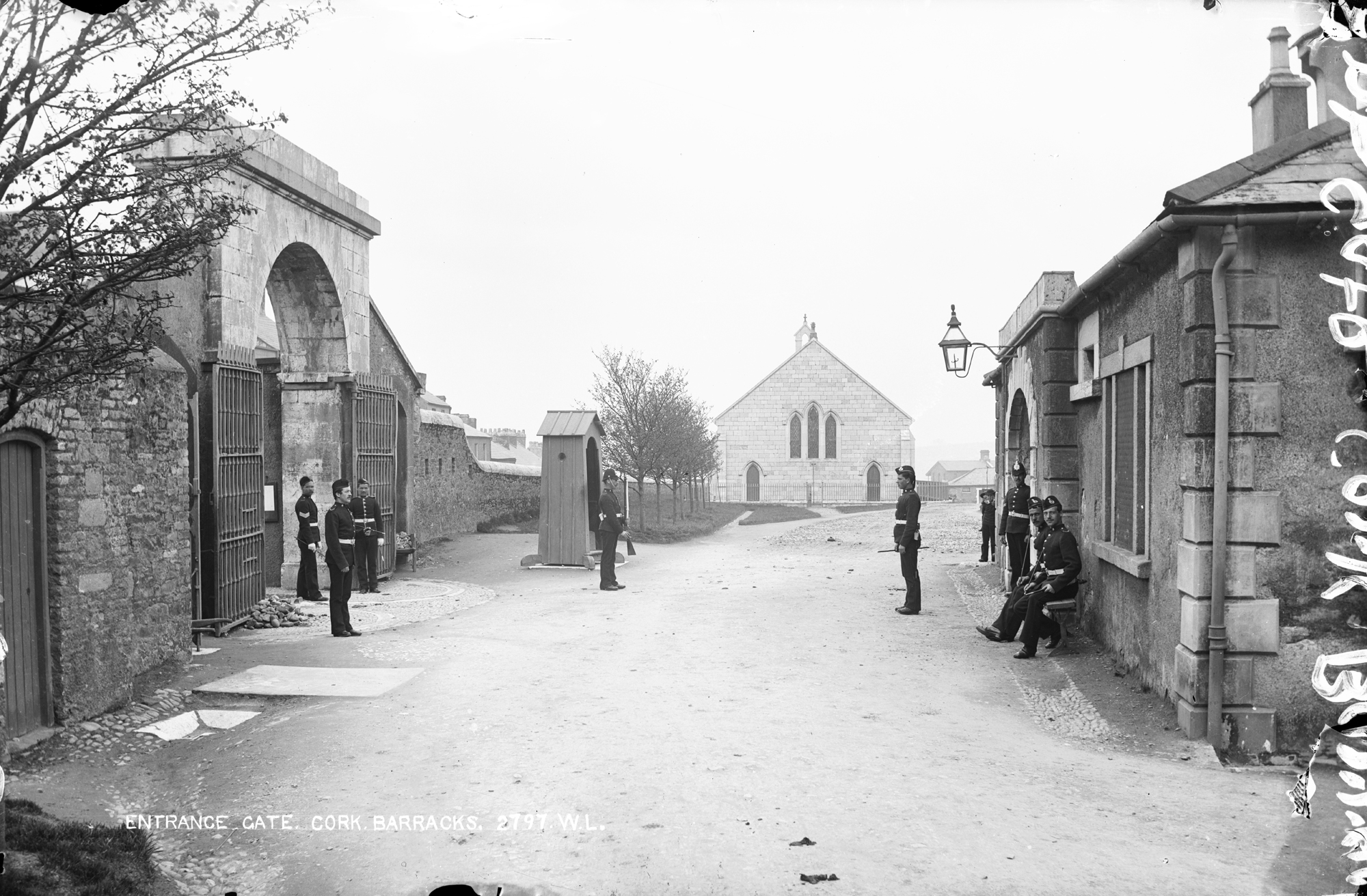 Victoria Barracks (now Collins Barracks) in Cork in 1897. On left is original entry gateway and arch (Old Youghal Road / Military Road). In centre is Barracks' chapel. On right is guardroom. (Now houses museum) NLI Ref.: L_CAB_02797